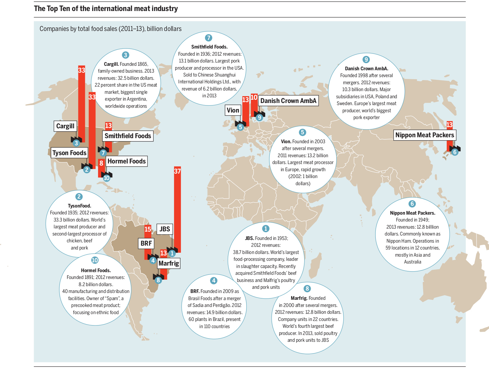 The Top Ten of the international meat industry (source: Meat Atlas)